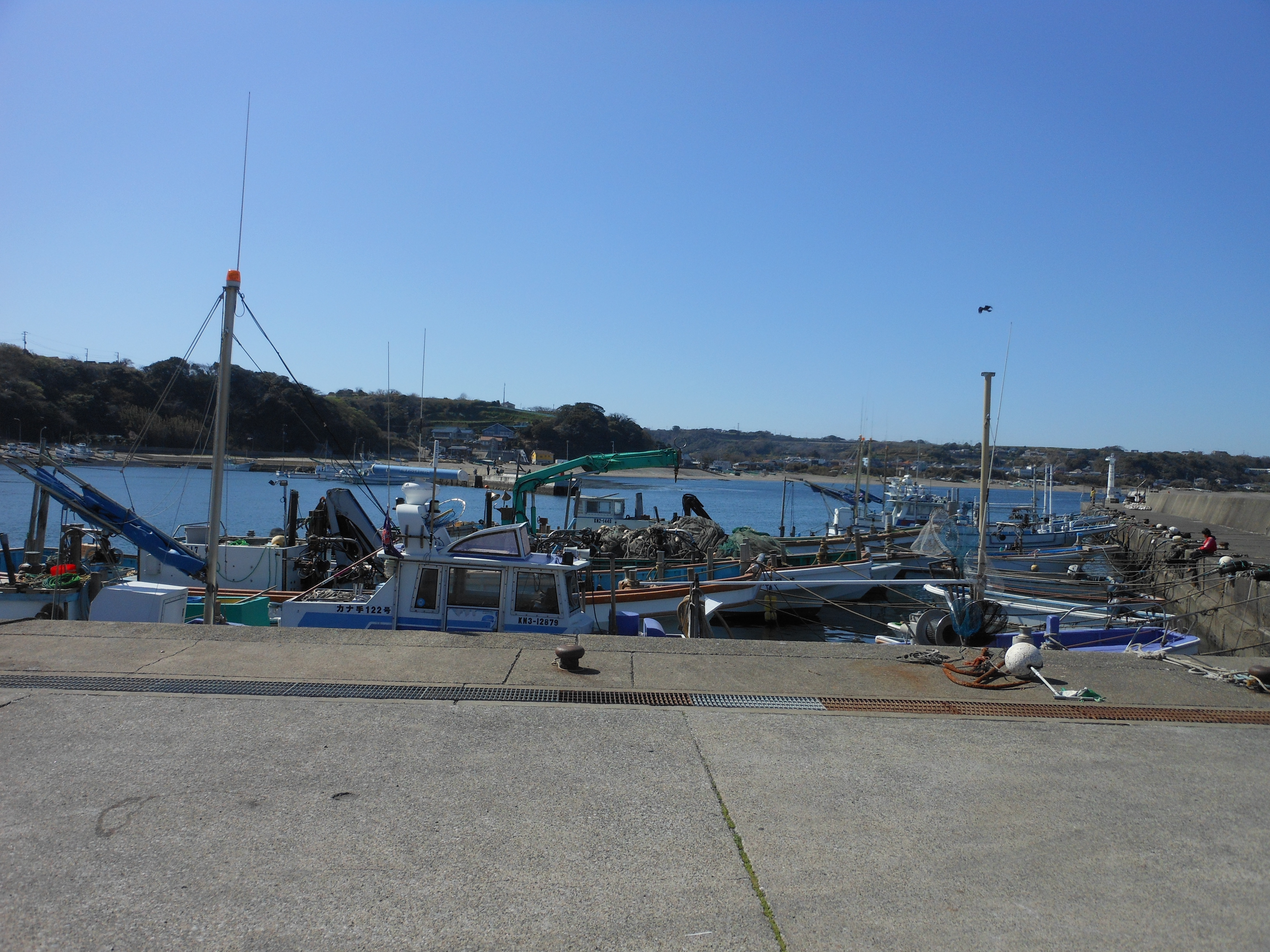 This is the Kaneda fishing port in Miura, Kanagawa, Japan.